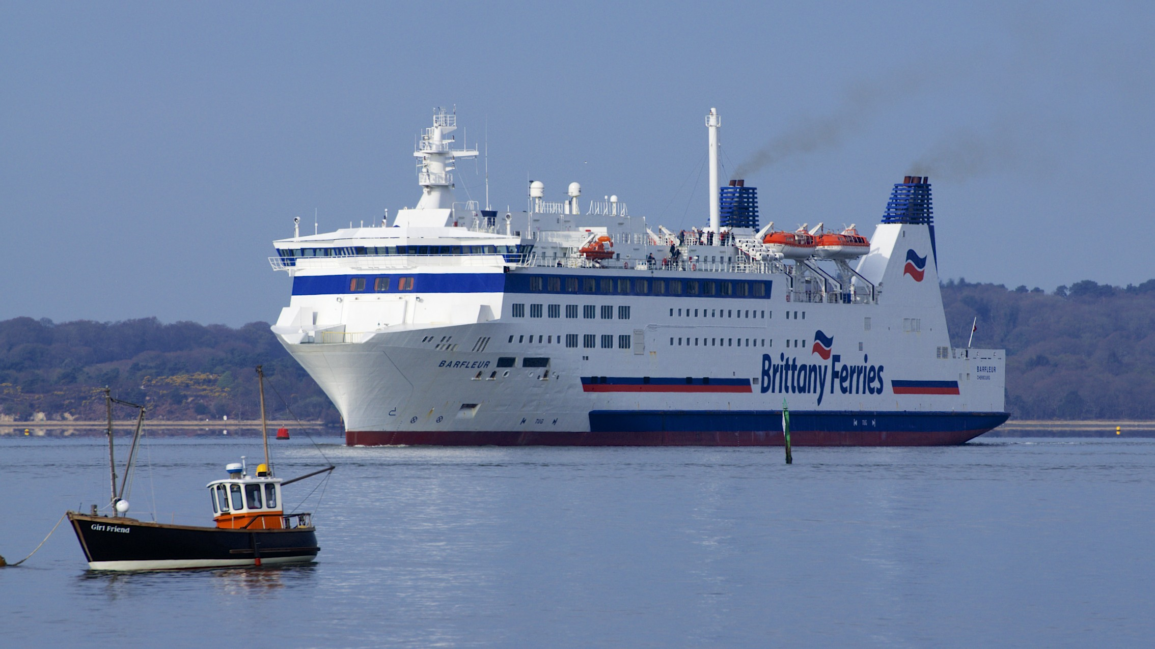 Leaving Poole with "Girl Friend" in the foreground.